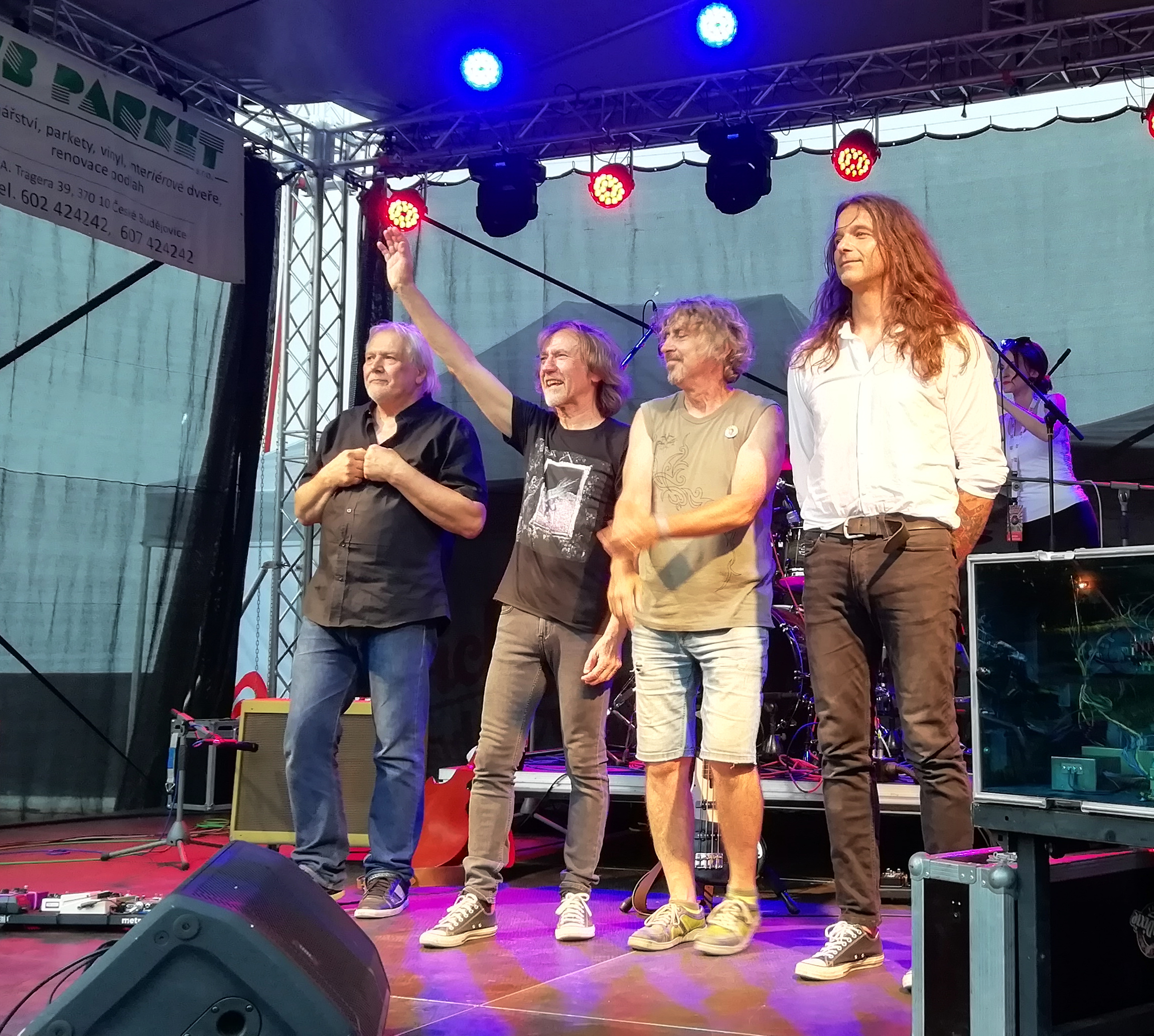 Energit, a Czech jazz rock band, at the open air cinema Háječek in České Budějovice, south Bohemia, Czechia, in July 2019